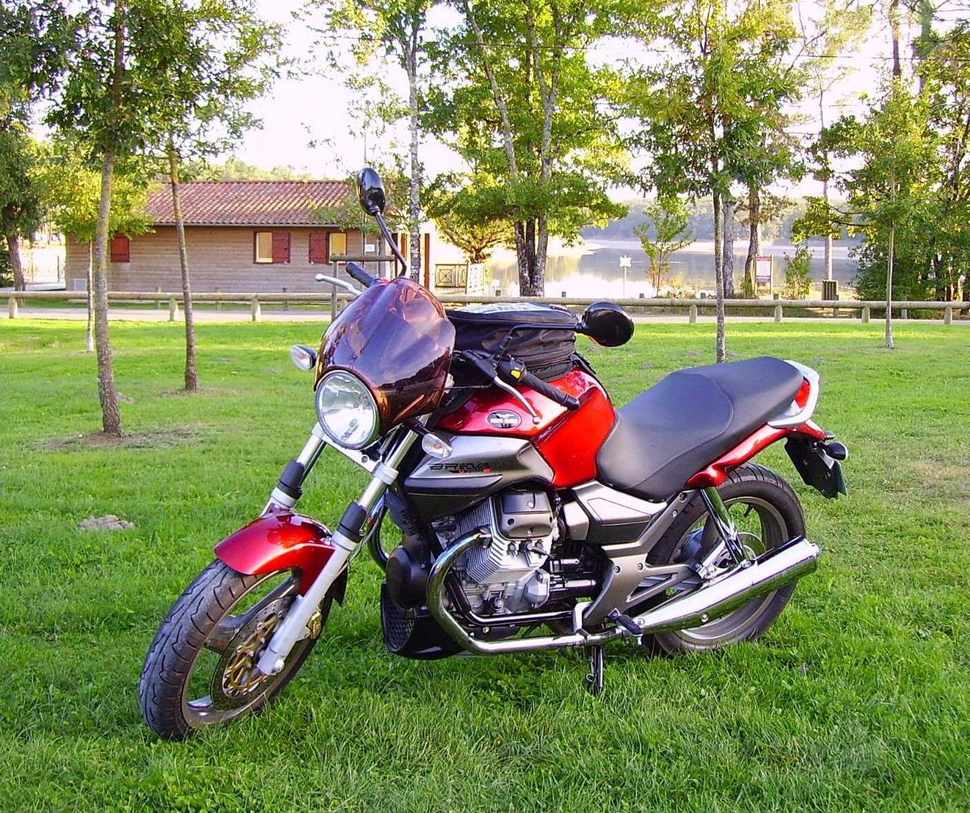 Moto Guzzi Breva 750ie (year 2003) red.